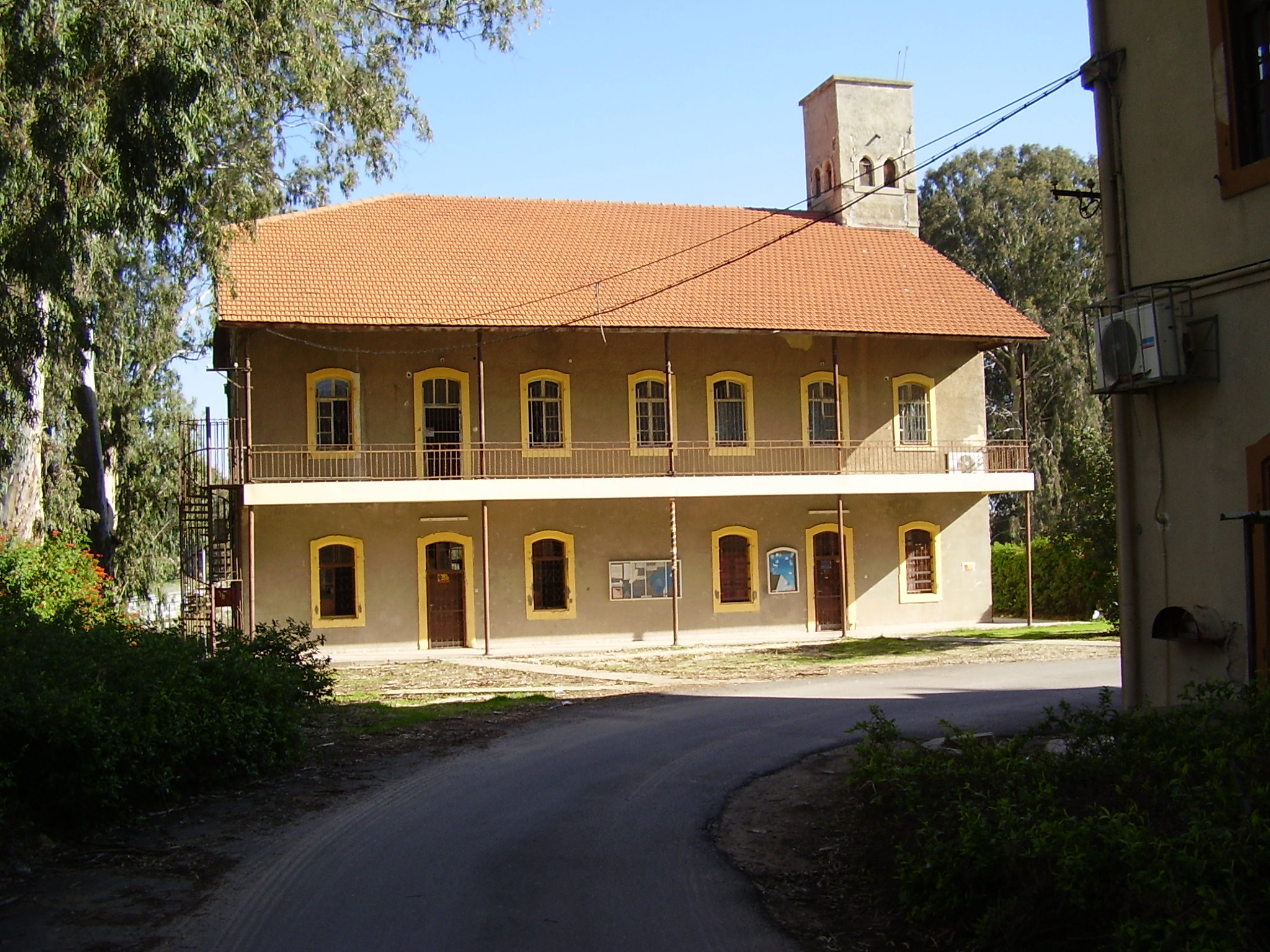 Spohn Farm in kibbutz Netzer Sereni